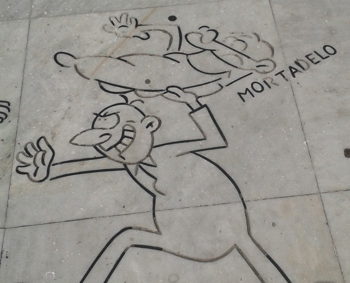 Permanent engraving of Mortadelo & Filemón on the monument in Plaza del Humor, A Coruña, Spain